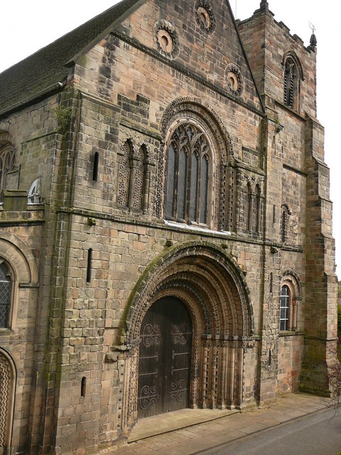 West front of Tutbury Parish Church